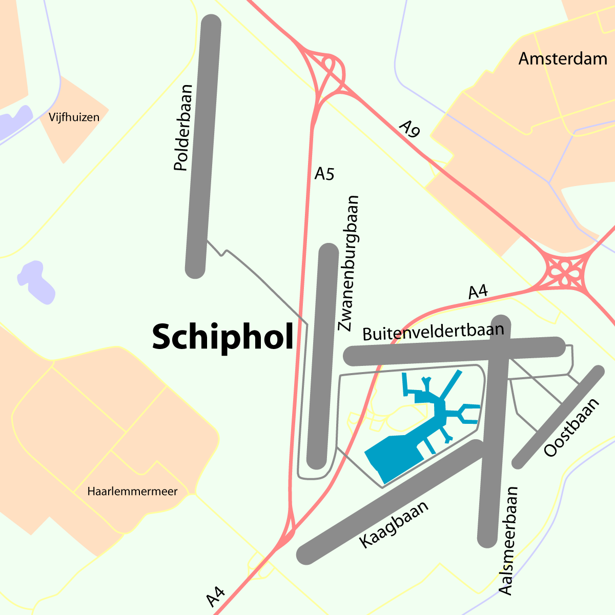 Schiphol (Amsterdam Airport) overview map